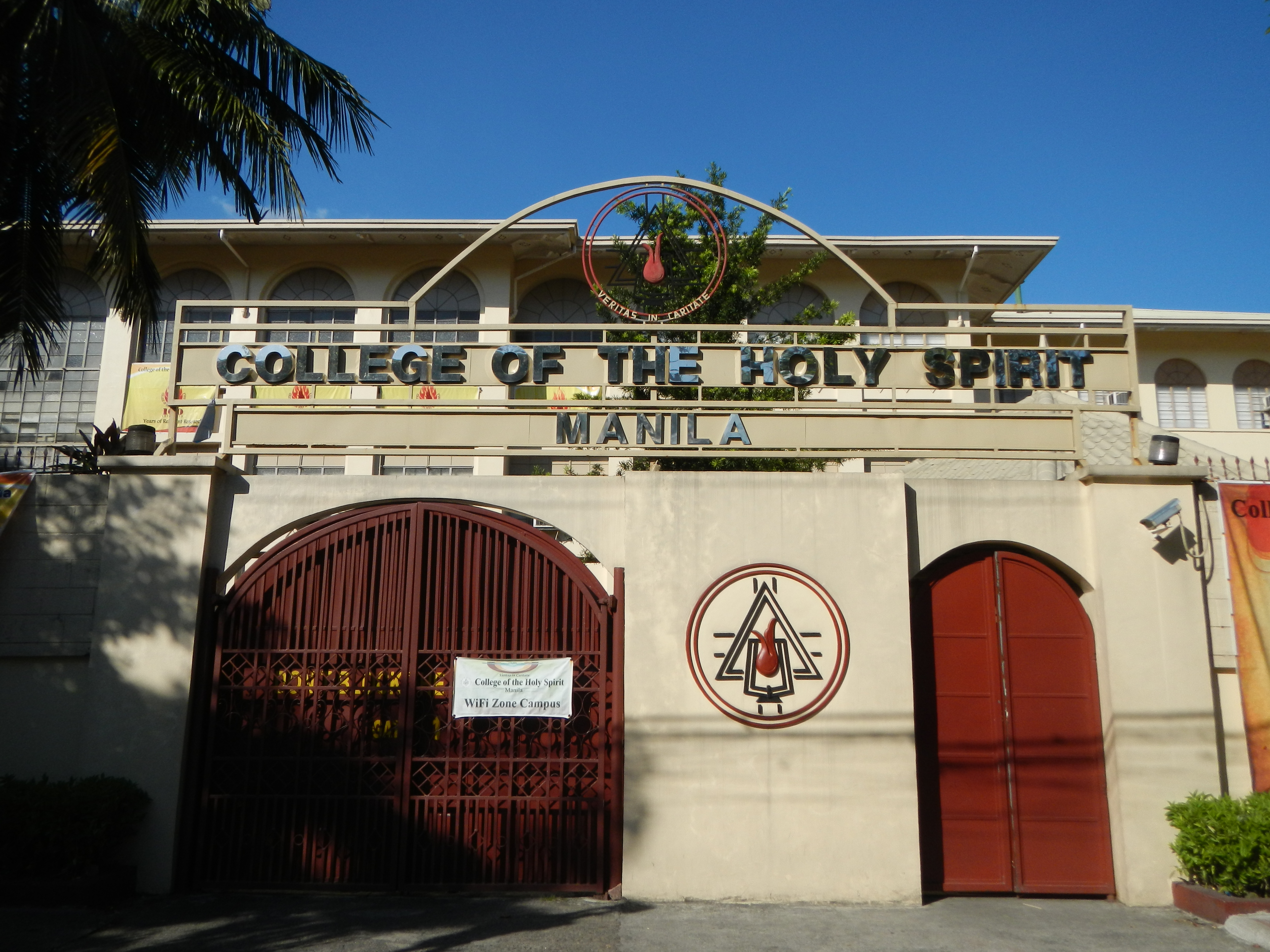 College of the Holy Spirit Manila[1]The College of the Holy Spirit Manila, or simply CHSM, a dynamic catholic educational institution committed to the formation of Trinitarian-centered communities through quality education. Animated by a community of spirit characterized by Right Relations, the College forms persons with a sense of mission who will build humane, just and empowered society. The College of the Holy Spirit of Manila is part of the nationwide school system of the Missionary Congregation of the Servants of the Holy Spirit (SSpS-Philippines) whose founders are Blessed Arnold Janssen, Blessed M. Helena Stollenwerk and Mother Josepha Stenmanns. Based on the Founders' Trinitarian spirituality, the College promotes the core values of deep faith, awareness of self and the world, mission, consciousness, perseverance and hard work, simplicity, community orientation, respect for equality and uniqueness, constant communication and unity of purpose. These are summed up in the motto: VERITAS IN CARITATE (TRUTH IN LOVE). 163 E.Mendiola, Manila, Philippines 1004 [2] [3]Coordinates: 14°35'52"N 120°59'41"E